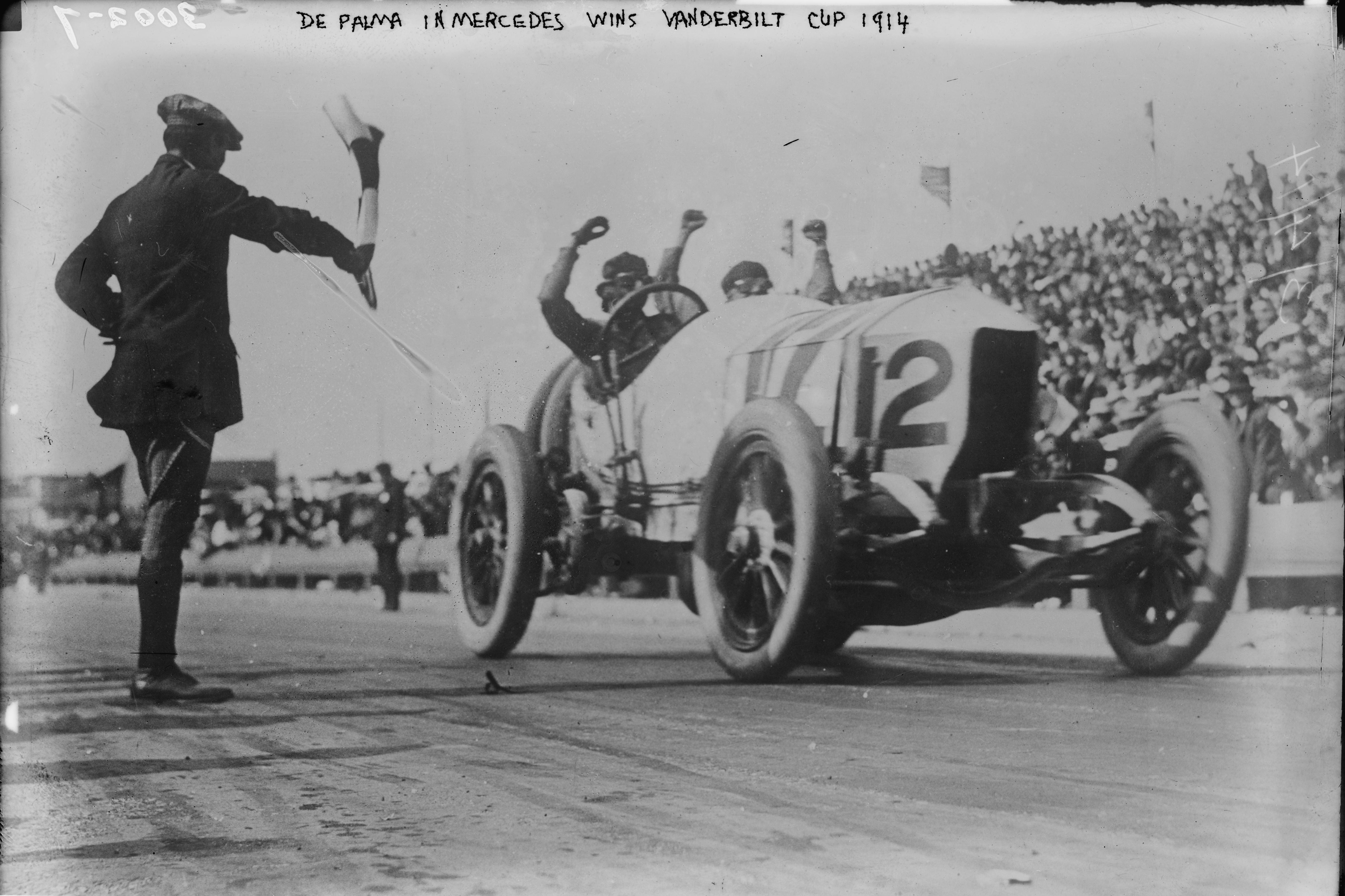 Ralph DePalma winning the 1914 Vanderbilt Cup race